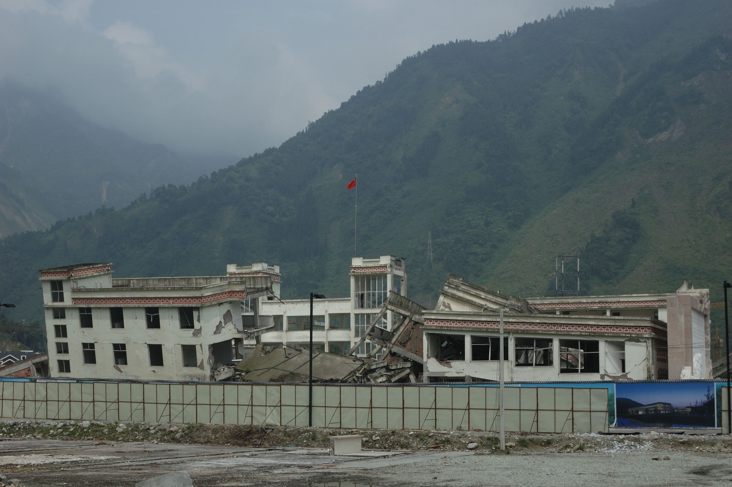 2008 Sichuan earthquake .